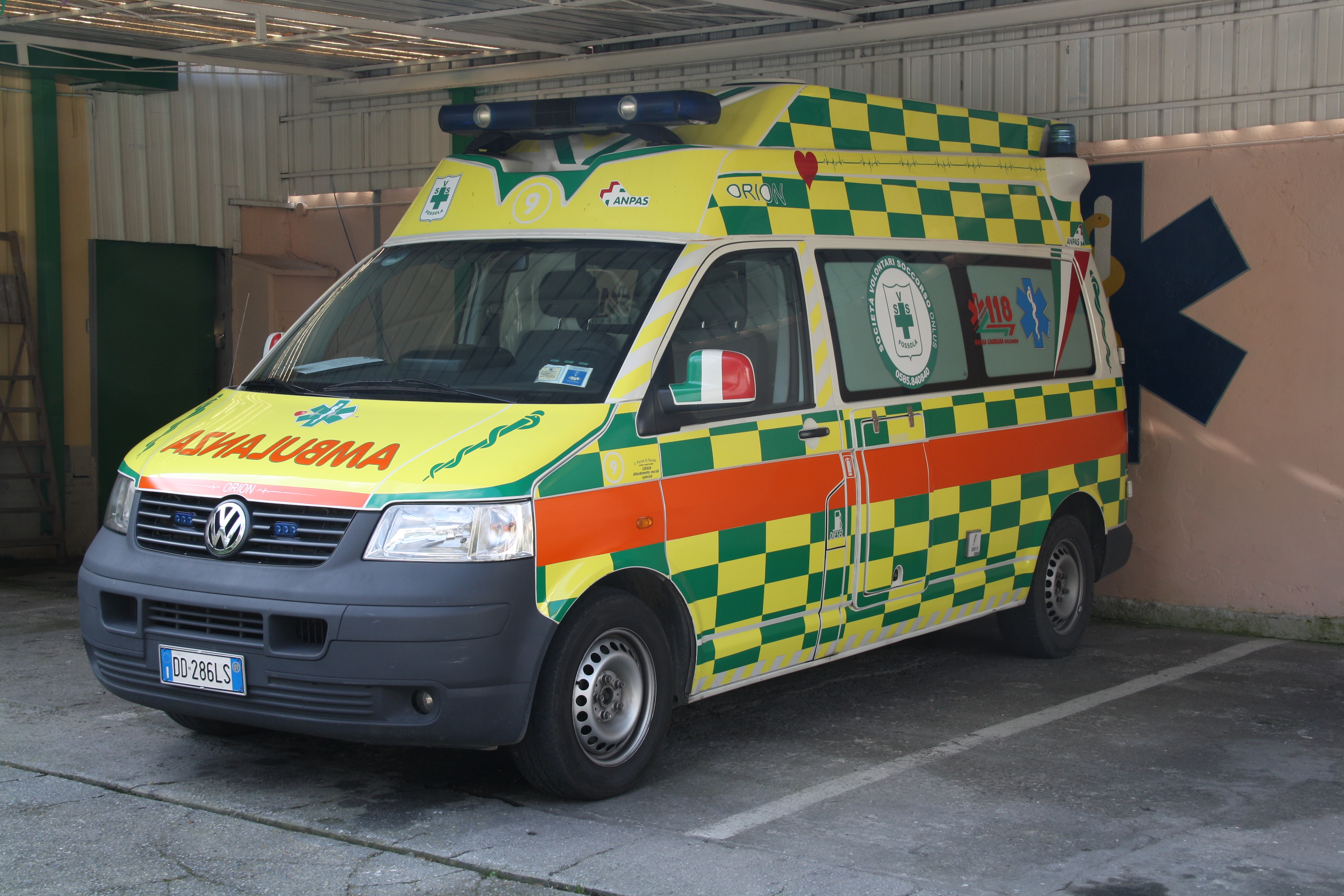 Italy, Fossola, Carrara. An ambulance belonged to the local Green Cross Voluntary Relief Society.